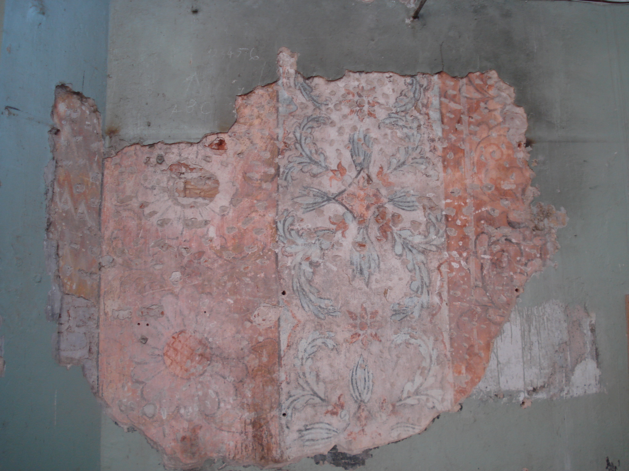 Ancient fresco in the Greek Catholic Church of Holy Trinity in Vilnius